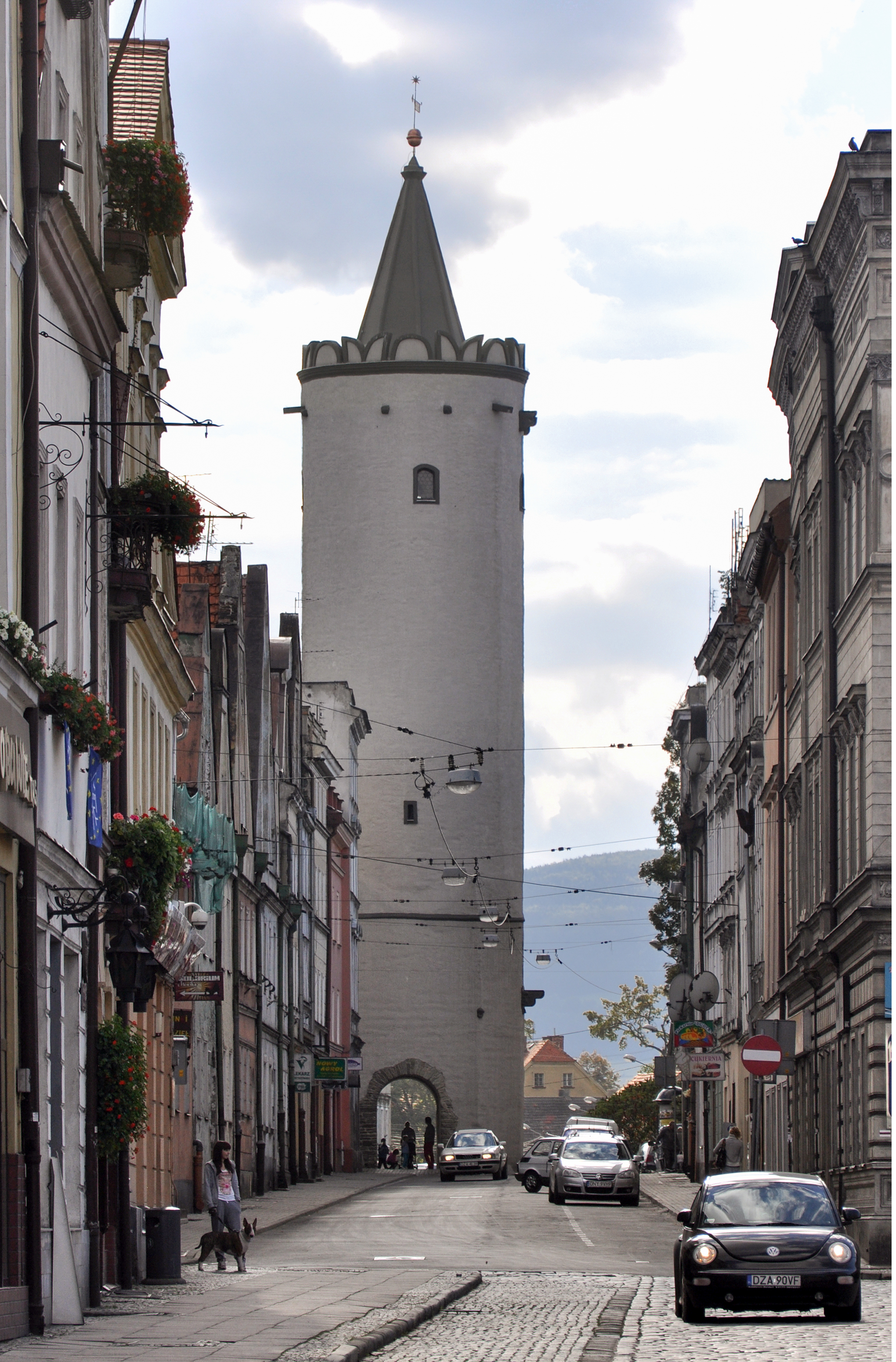 Kłodzka Gate in Paczków